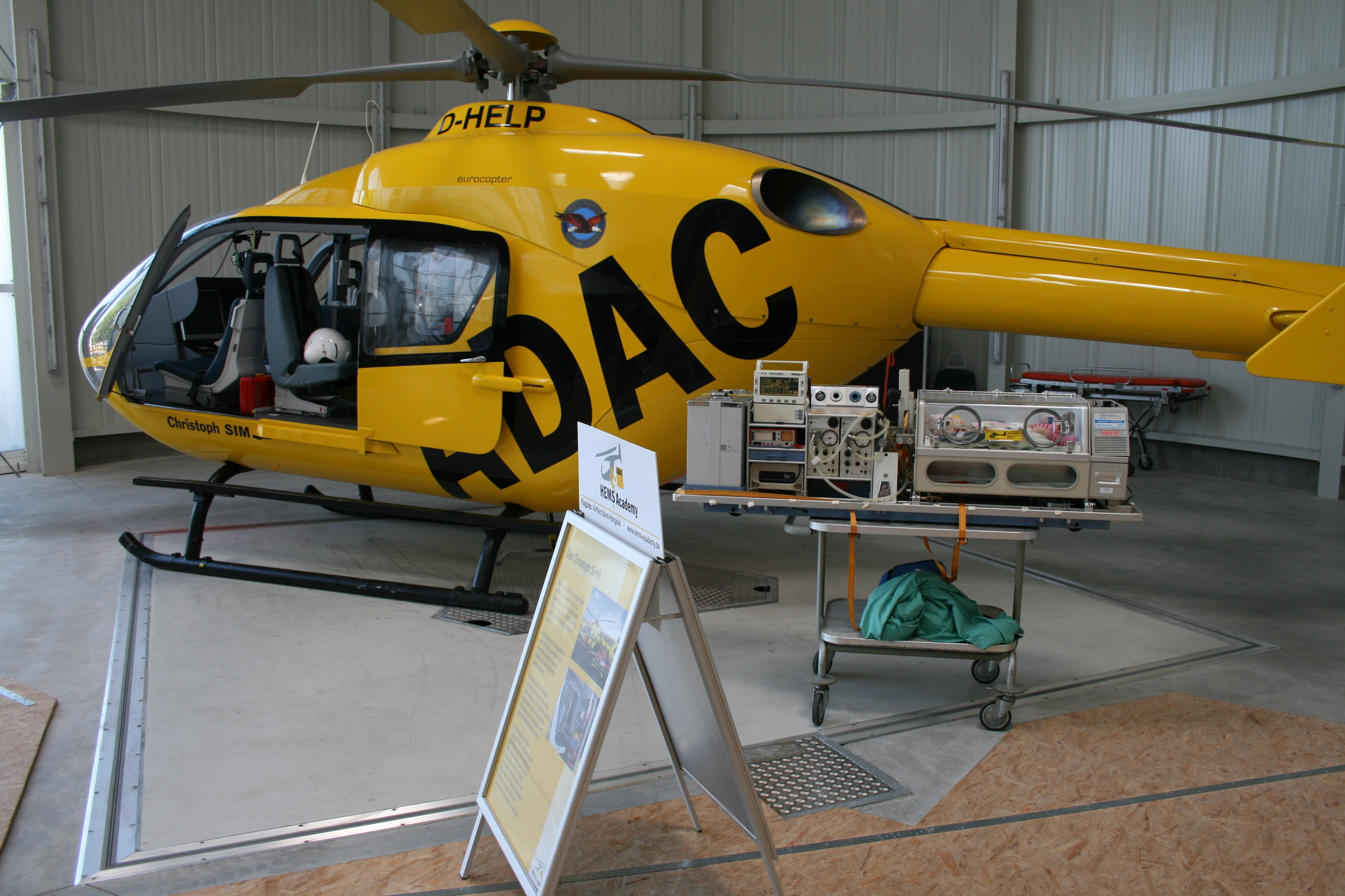 ADAC HEMS-Academy at German Airfield Bonn/Hangelar: SIM helicopter model (EC 135); made by wood for rescue training; named Christoph SIM.)